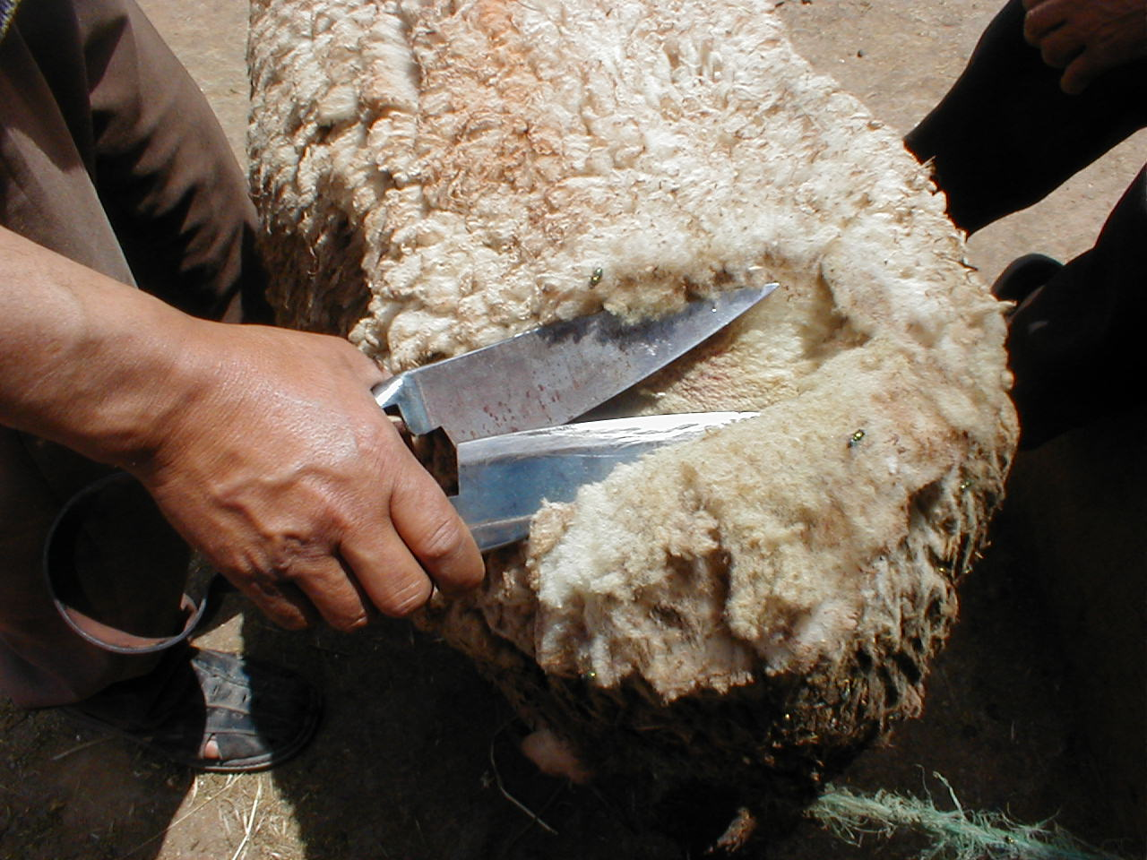 Walon: Foixhes a l' ovraedje